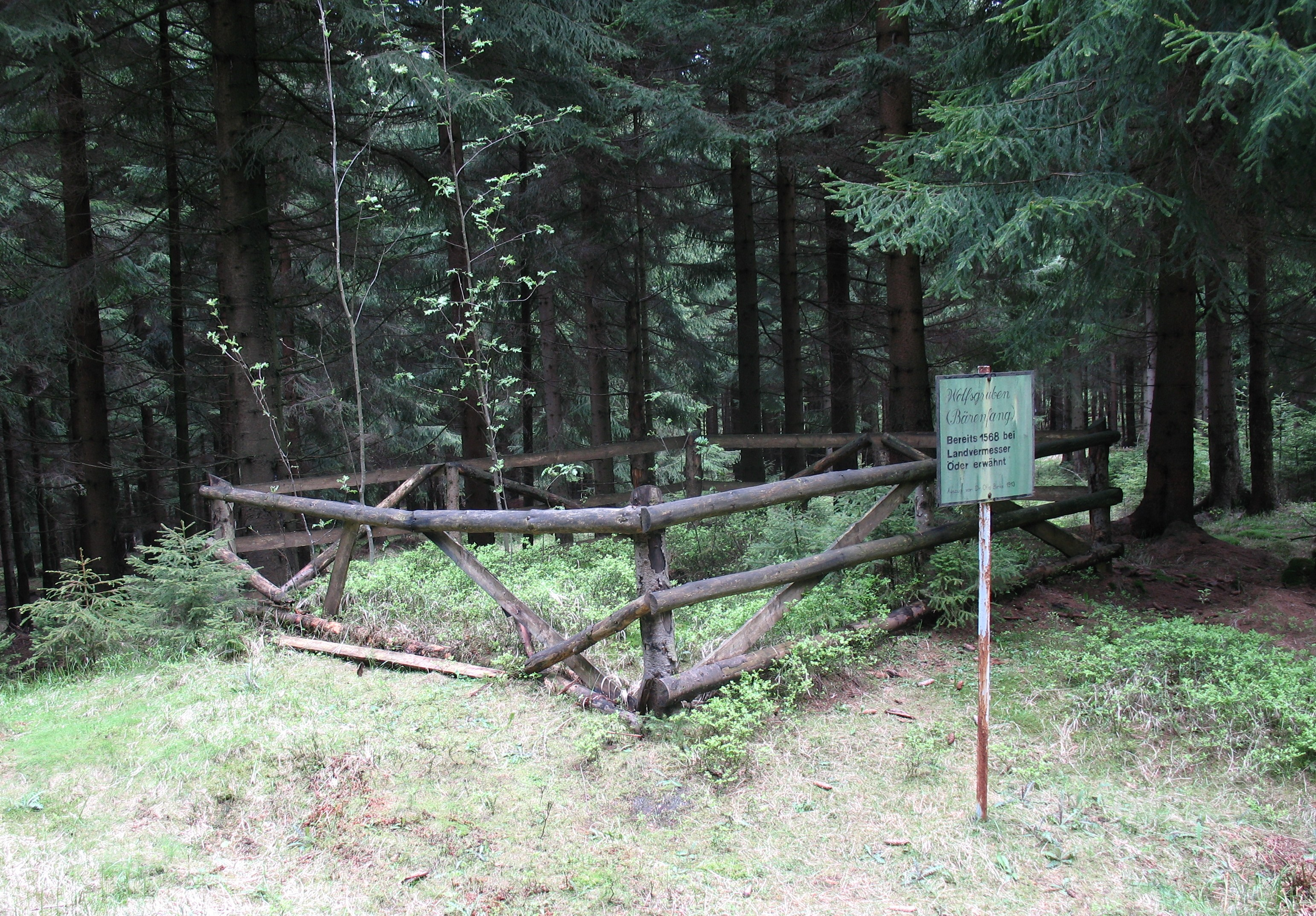 Wolf trap near Sehmatal-Neudorf, Erzgebirge